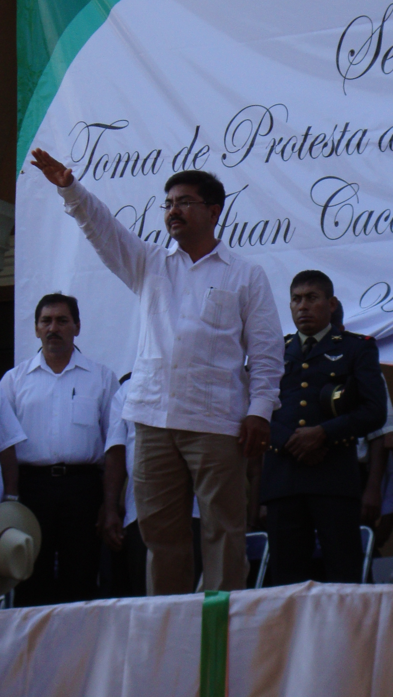 Lic. Edilberto Rojas Peña de la Cruz Presidente Municipal of Cacahuatepec (2011-2013)